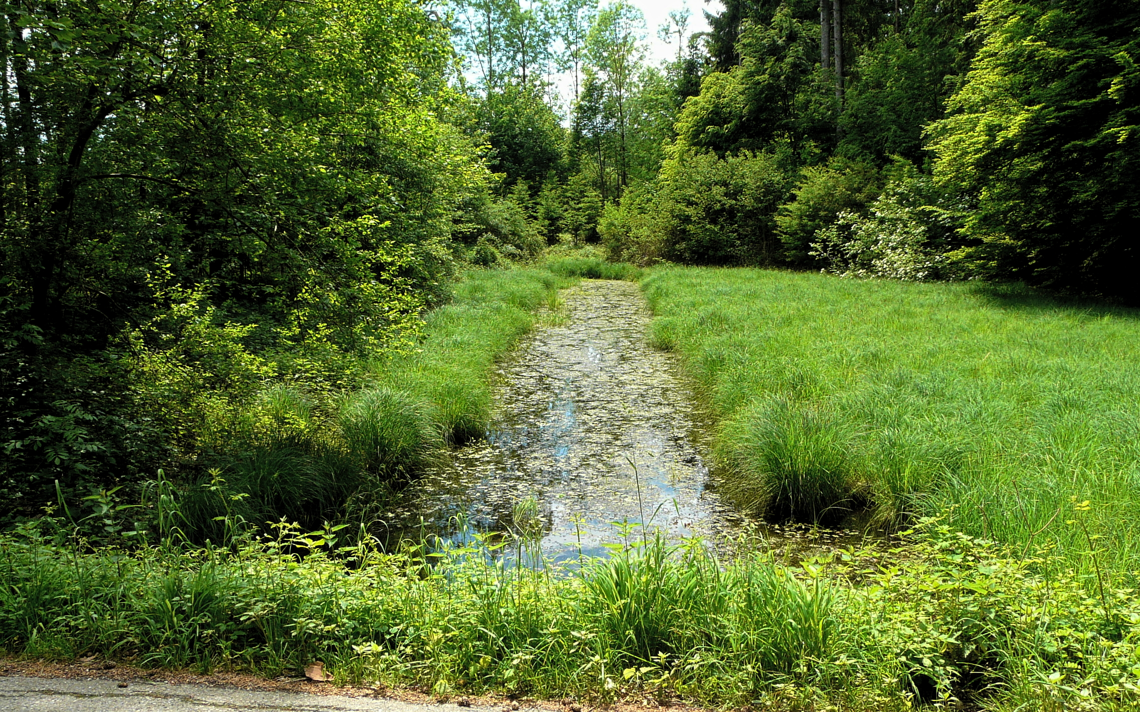 geotope, kettle hole (Upper-Pleistocene)